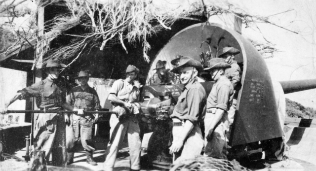 AWM caption : "FORT PEARCE, PORT PHILLIP HEADS, VIC, 1944-04. 6 INCH GUN CREW FROM "C" COMPANY 5TH BATTALION VOLUNTEER DEFENCE CORPS (VDC) PREPARES FOR ACTION AT TRAINING CAMP EASTER 1944. LEFT TO RIGHT: J. RILEY, J. PHELAN, -, T. ELLIOT, E. DAMMERT, C. SUTTON, -, -. "